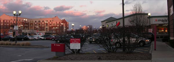 Corner of 52nd and 95th st in Oak Lawn